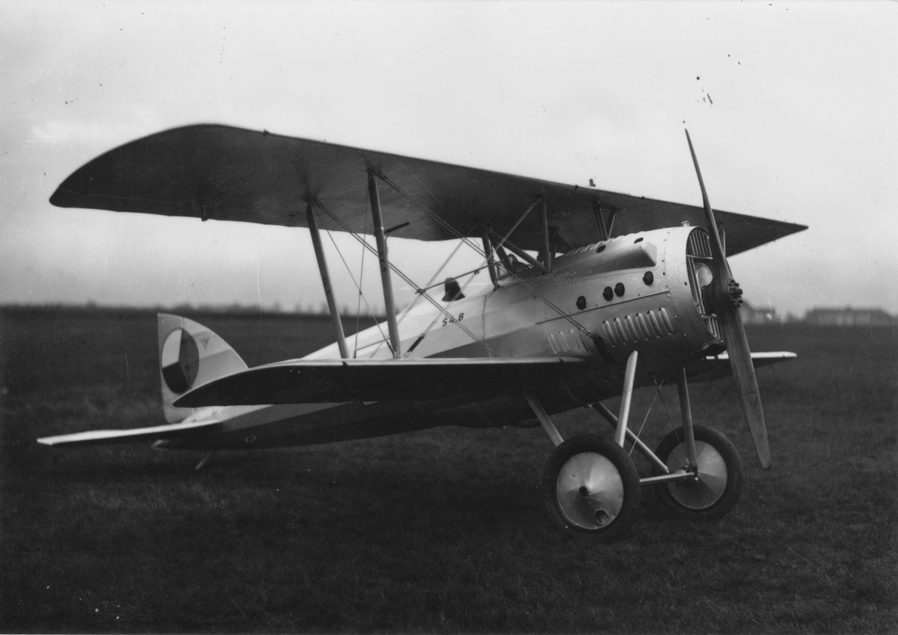 Letov Š-4 modified for engine Hispano Suiza 8Aa